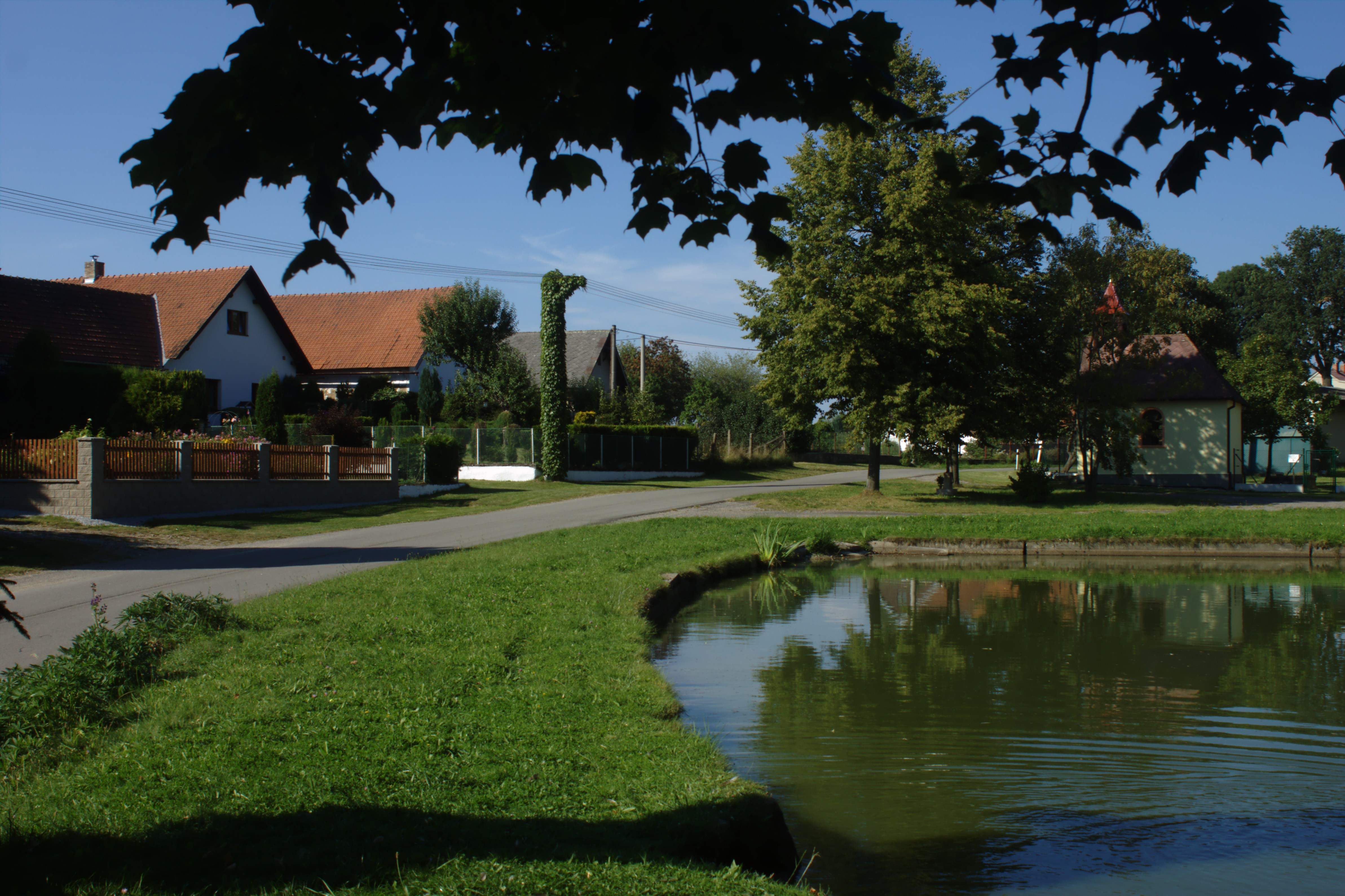 A pond in the village of Řísnice, Central Bohemia, CZ